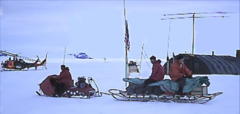 Byrd Station (historic)